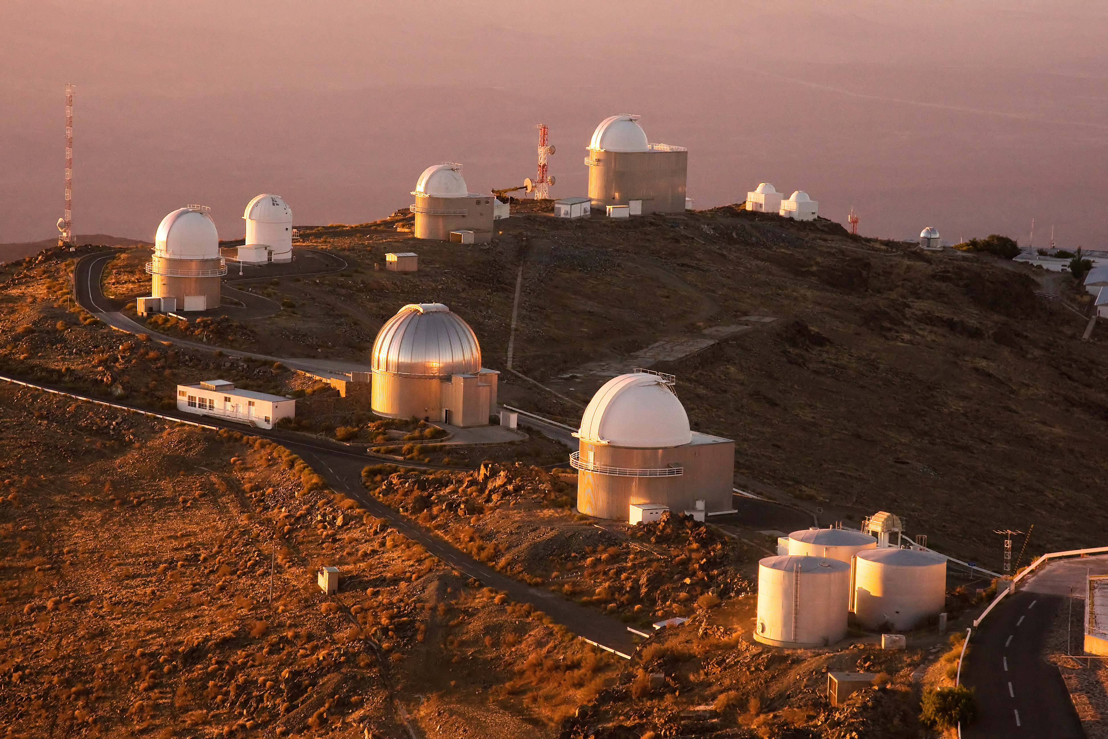 A ring of telescopes at ESO's La Silla observation site. La Silla, in the southern part of the Atacama desert, 600 km north of Santiago de Chile, was ESO's first observation site. The telescopes are 2400 metres above sea level, providing excellent observing conditions. ESO operates the 3.6-m telescope, the New Technology Telescope (NTT), and the 2.2-m Max-Planck-ESO telescope at La Silla. La Silla also hosts national telescopes, such as the 1.2-m Swiss Telescope and the 1.5-m Danish Telescope.